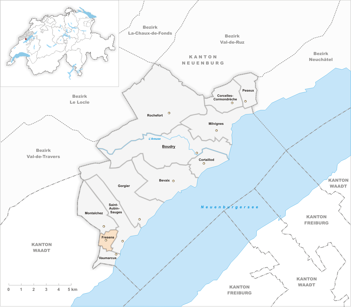 Municipality Fresens